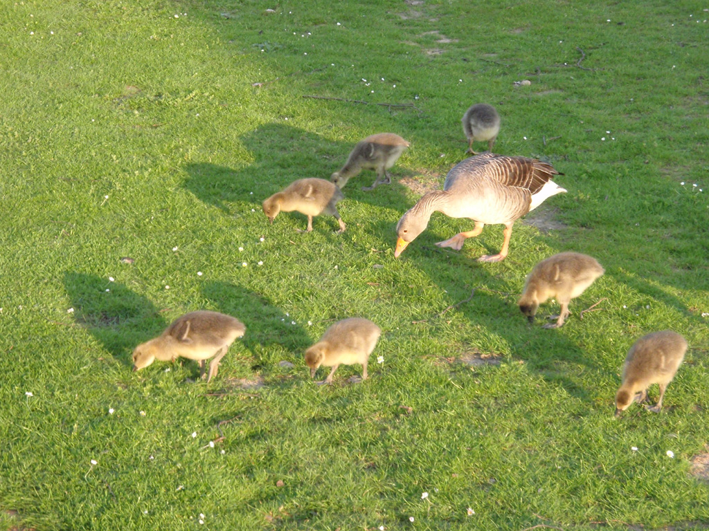 Greylag goose family, University of York